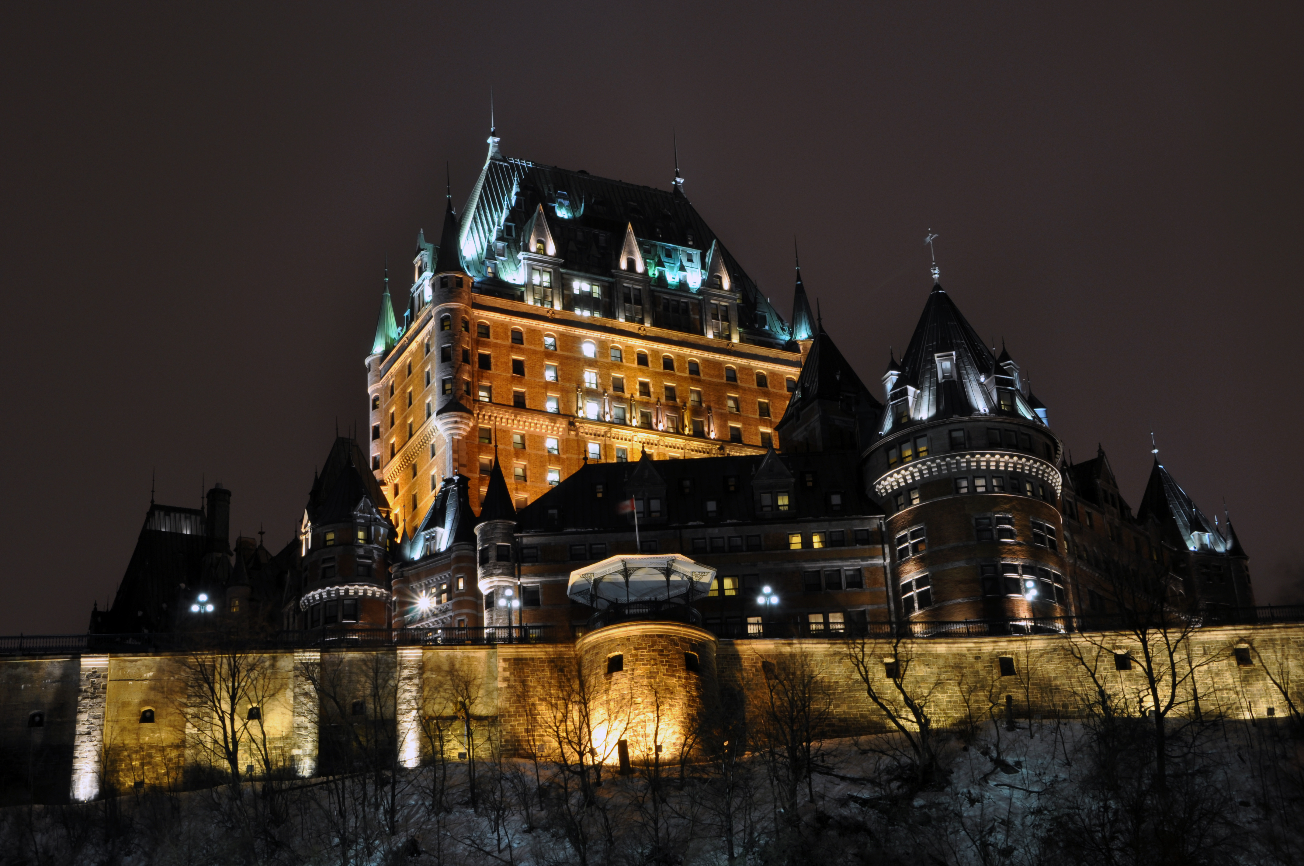 Chateau Frontenac night view Quebec City winter 2010